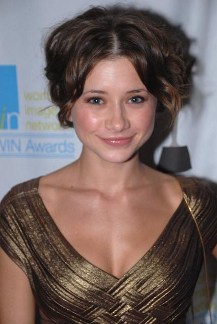 Olesya Rulin, November 11, 2007 - Women's Image Network Awards